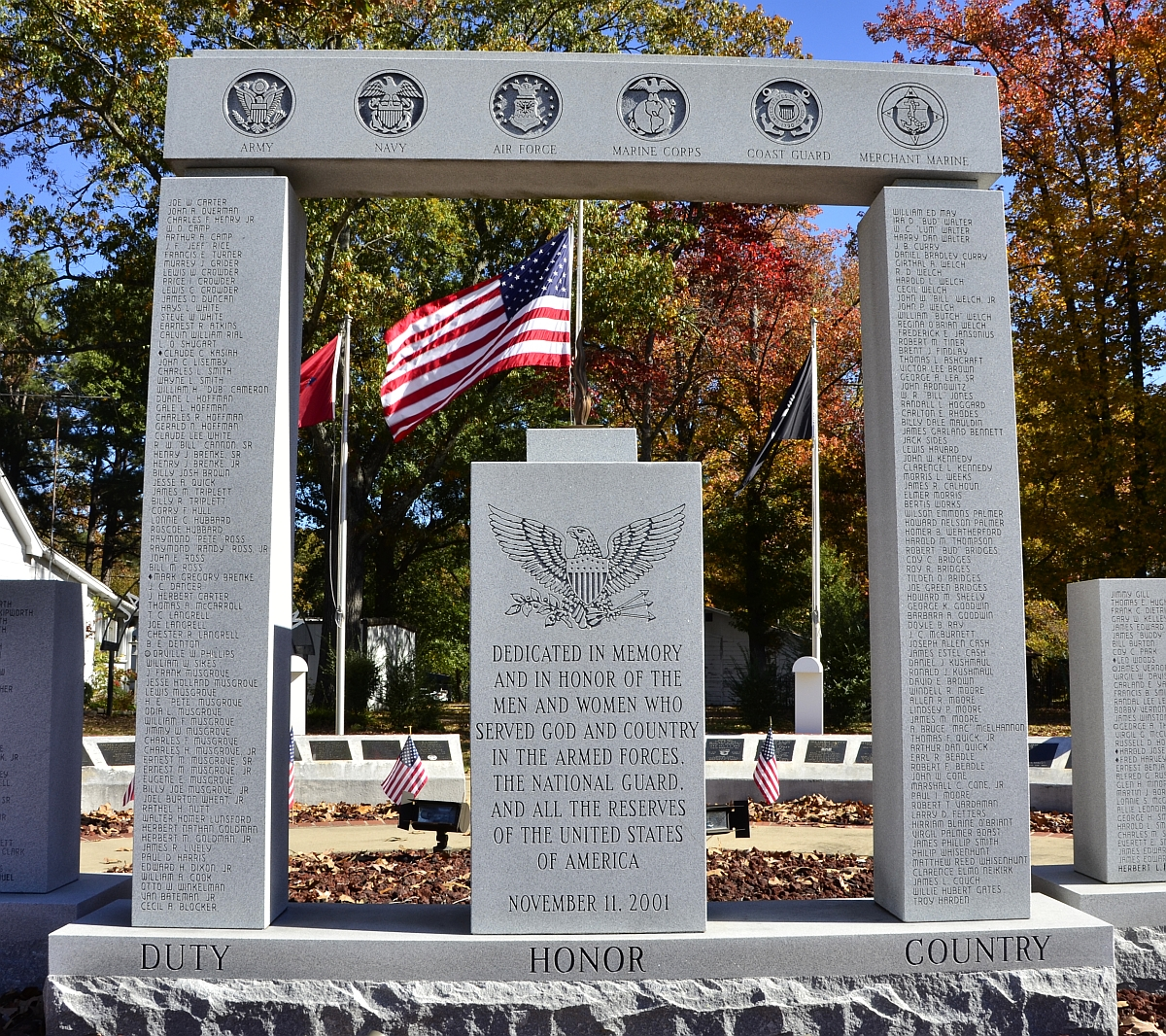 Soldiers' Memorial - White Hall, Arkansas (2012).